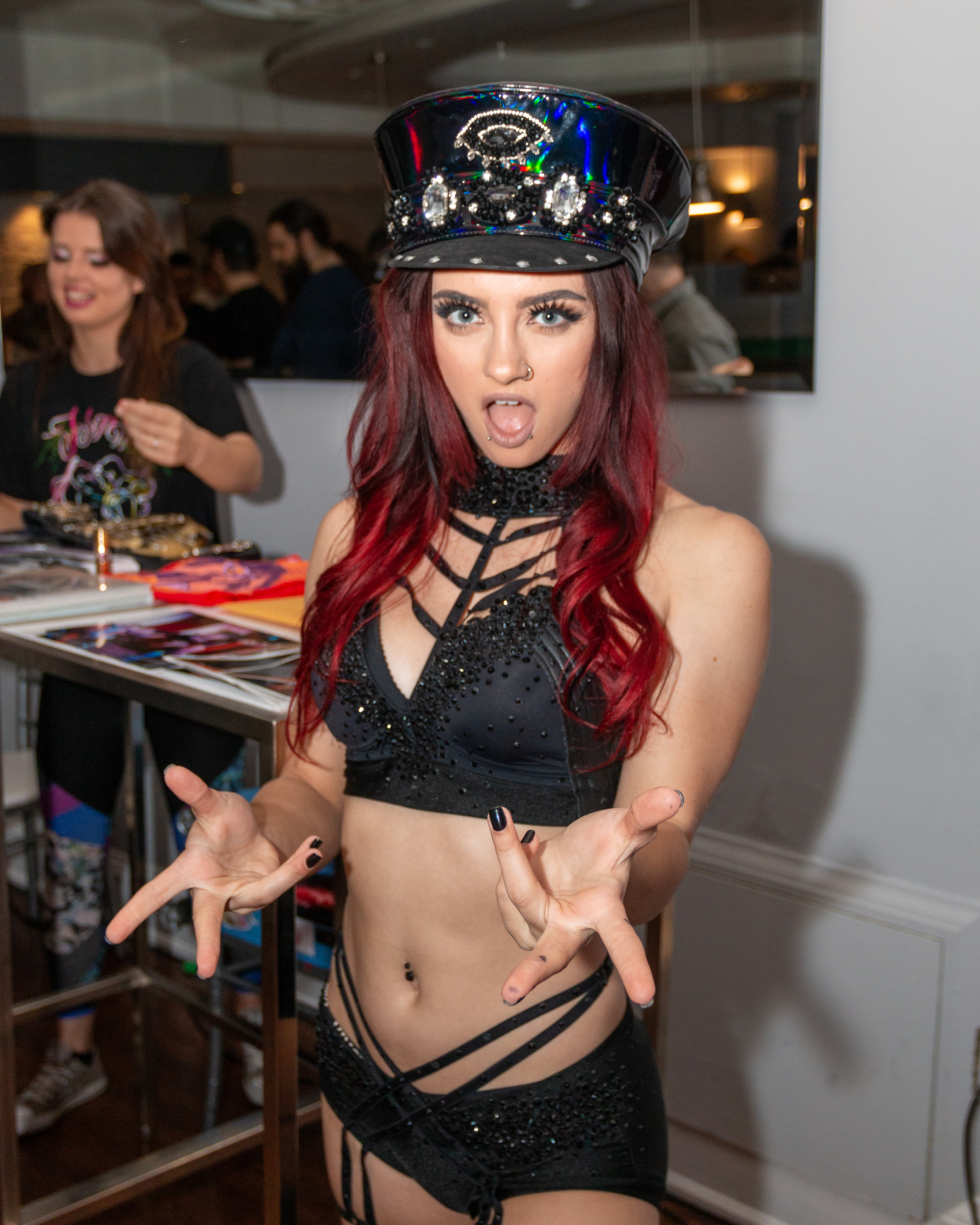 Independent wrestler Priscilla Kelly at Smash Wrestling's The Summit show in Toronto, ON